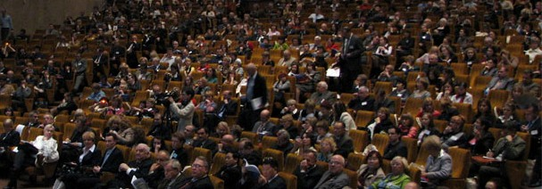 Photo from the III All-Russian Congress of Sociology